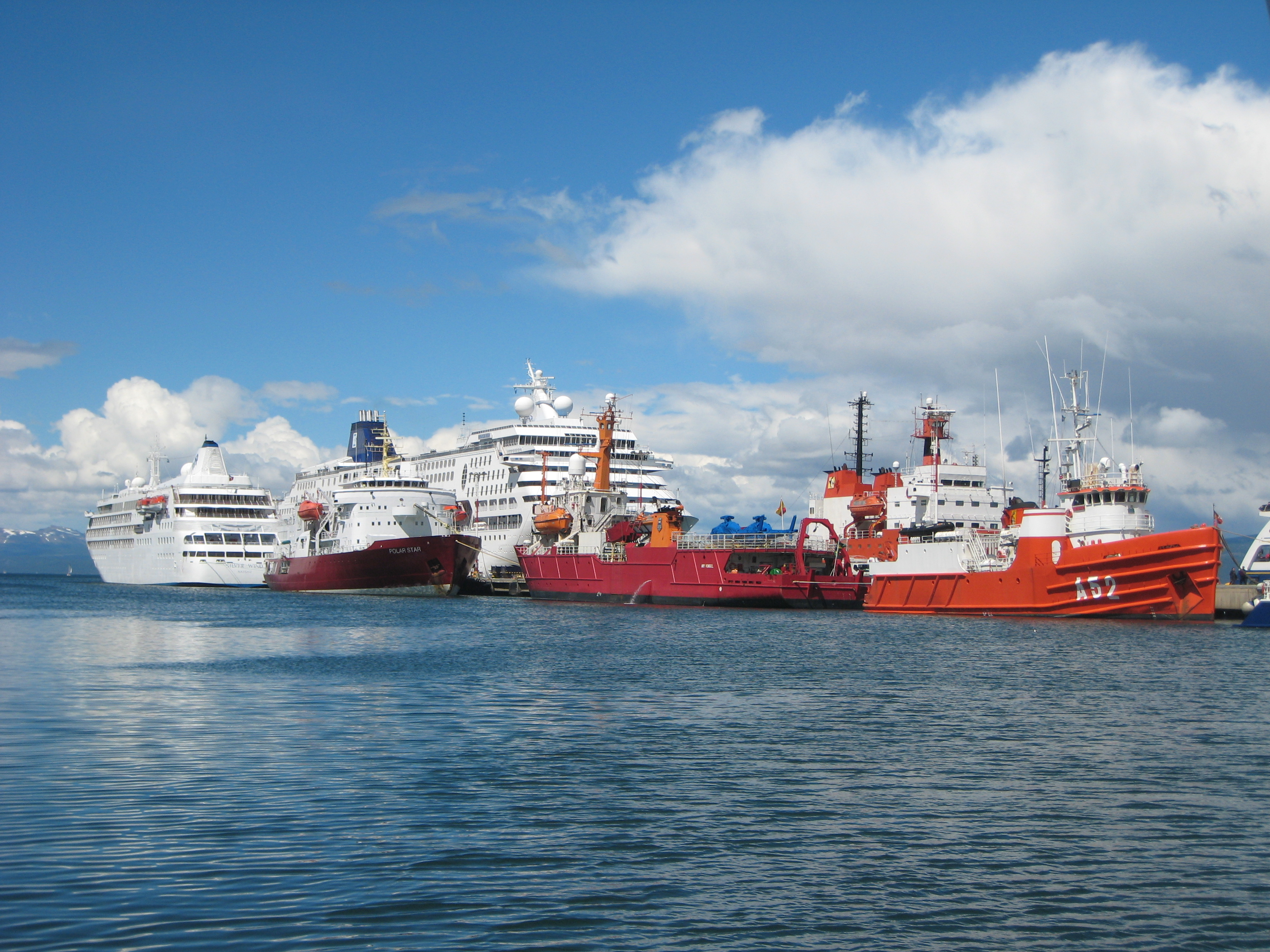 MS Polar Star in Ushuaia 30 december 2007